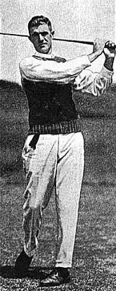 John Emmet French (November 22, 1886 – June 10, 1947), A circa 1919 photograph of American professional golfer Emmet French.